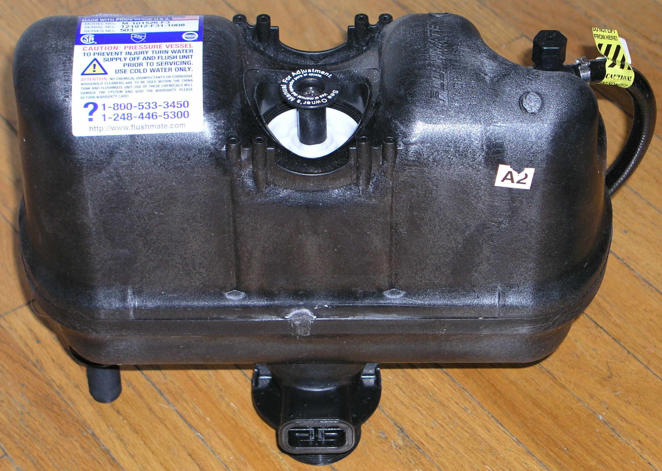 Sloan pressure vessel from a Gerber Powerflush toilet